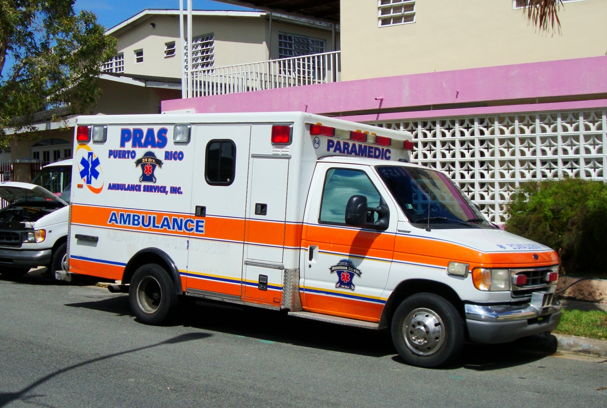 TDelCoro